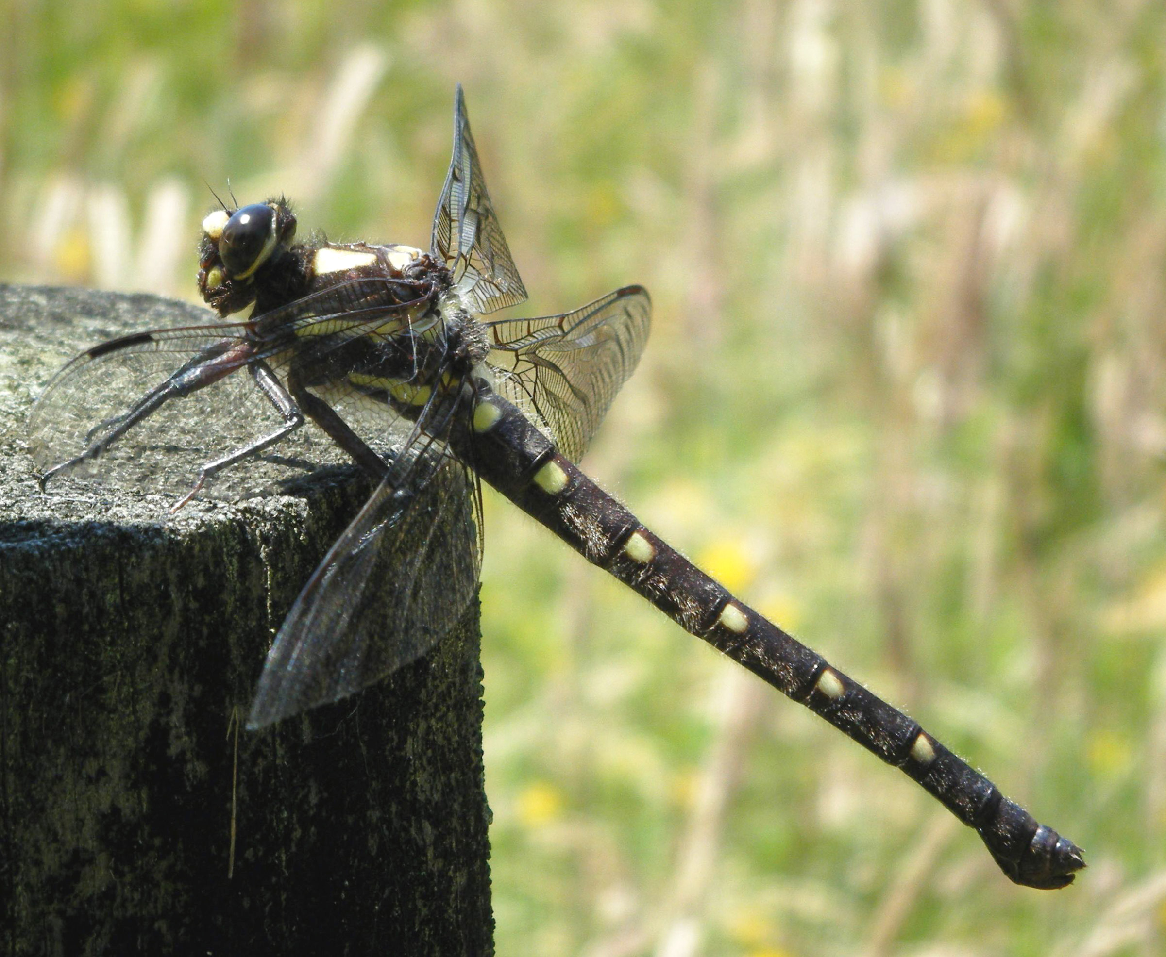 Taken up Bullet Creek Road in Punakaiki.